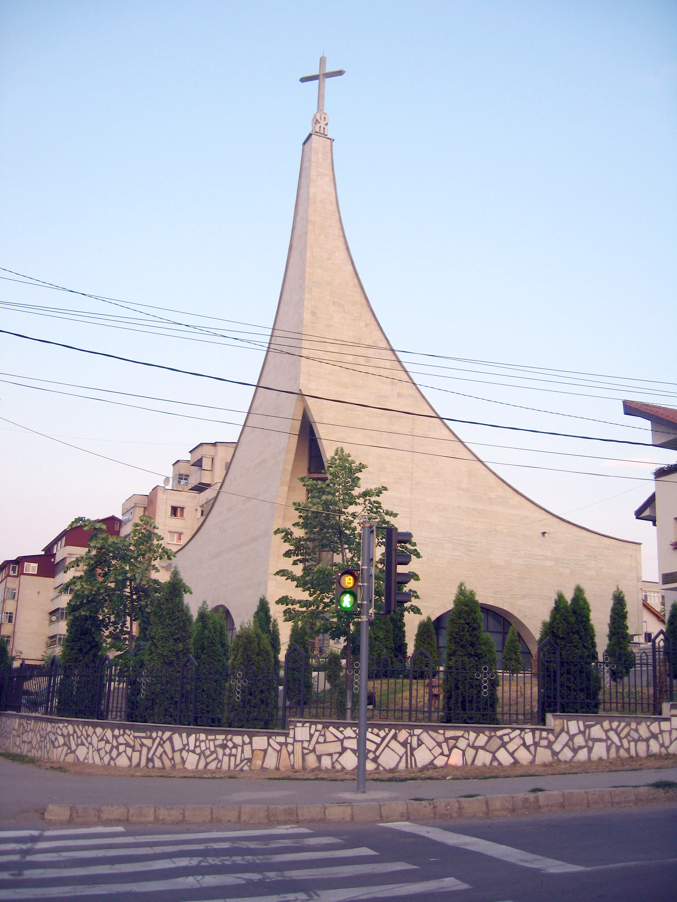 Biserica Sf. Tereza din Iaşi